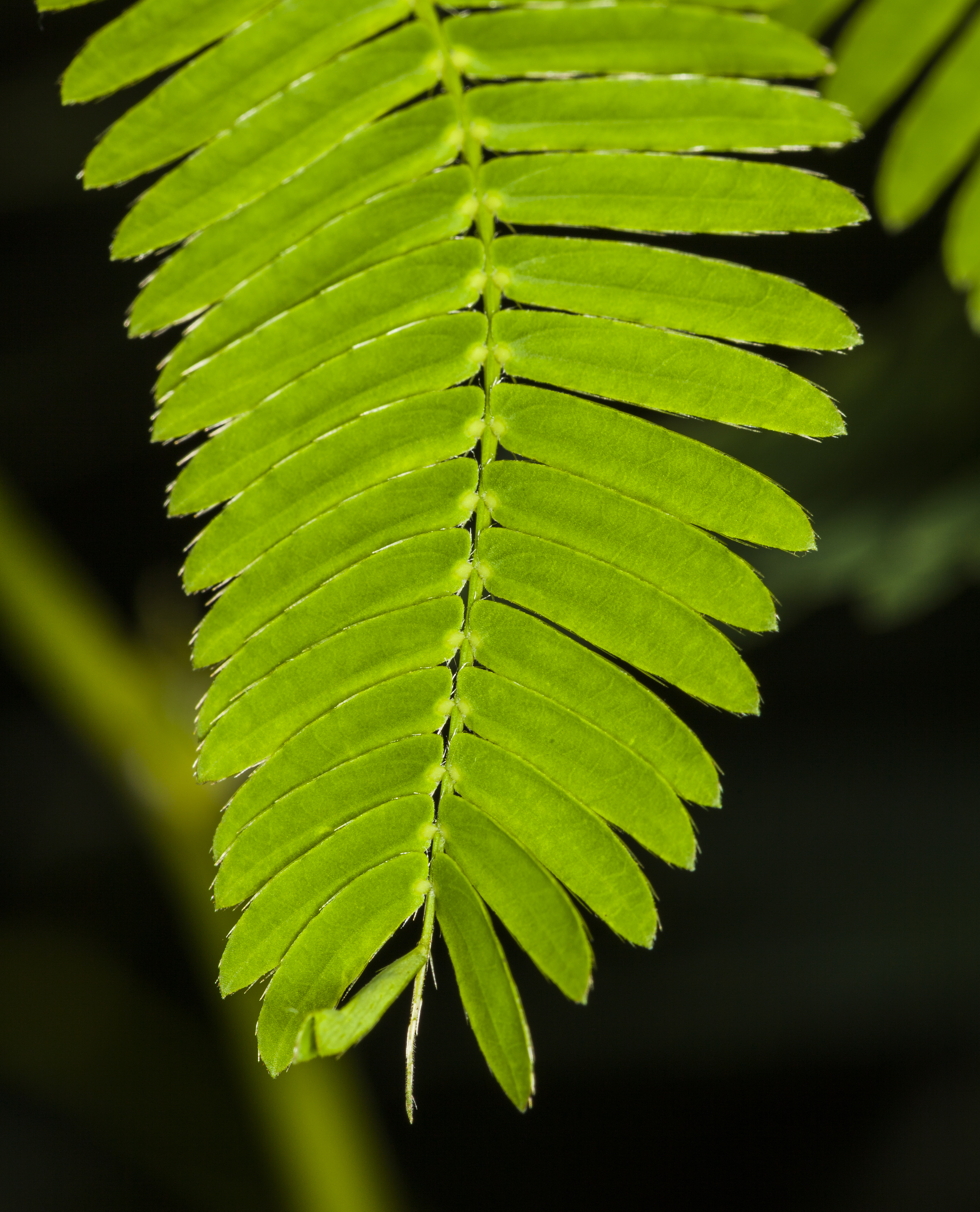 Mimosa spegazzinii, Munich Botanical Garden, Germany